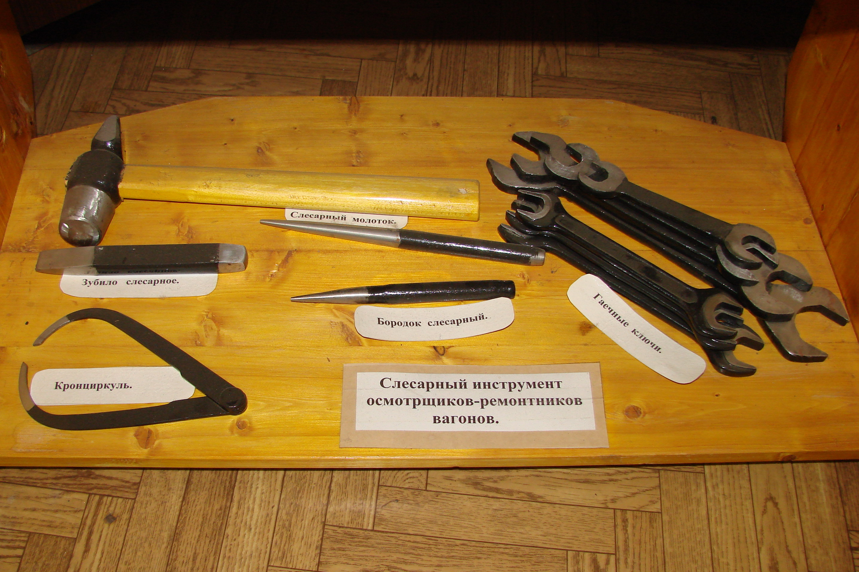 Russia, Vologda, Museum of railway carriage depot